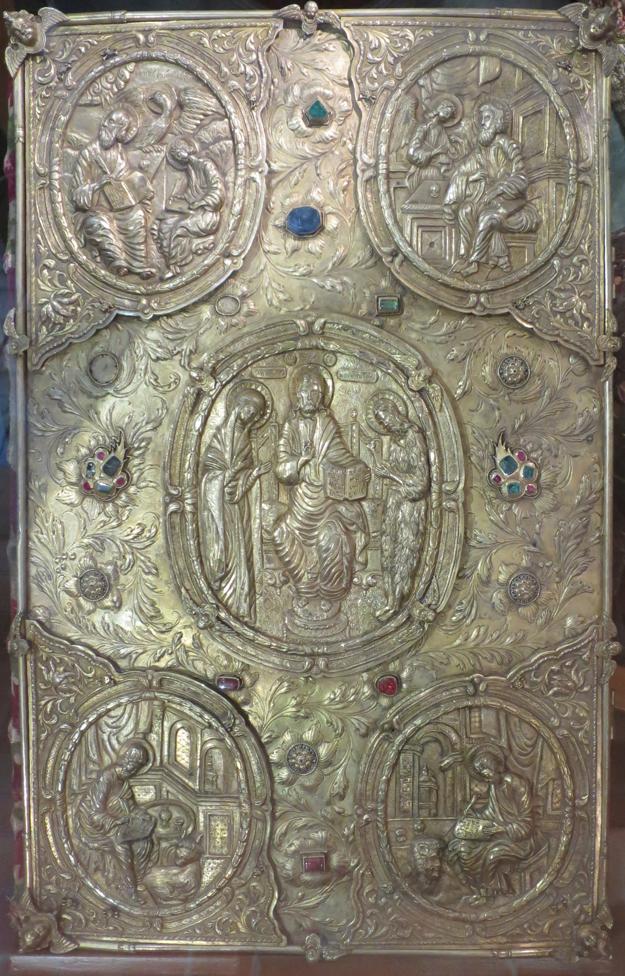 Russian repoussé book cover, 1689, Merchant Yard Museum